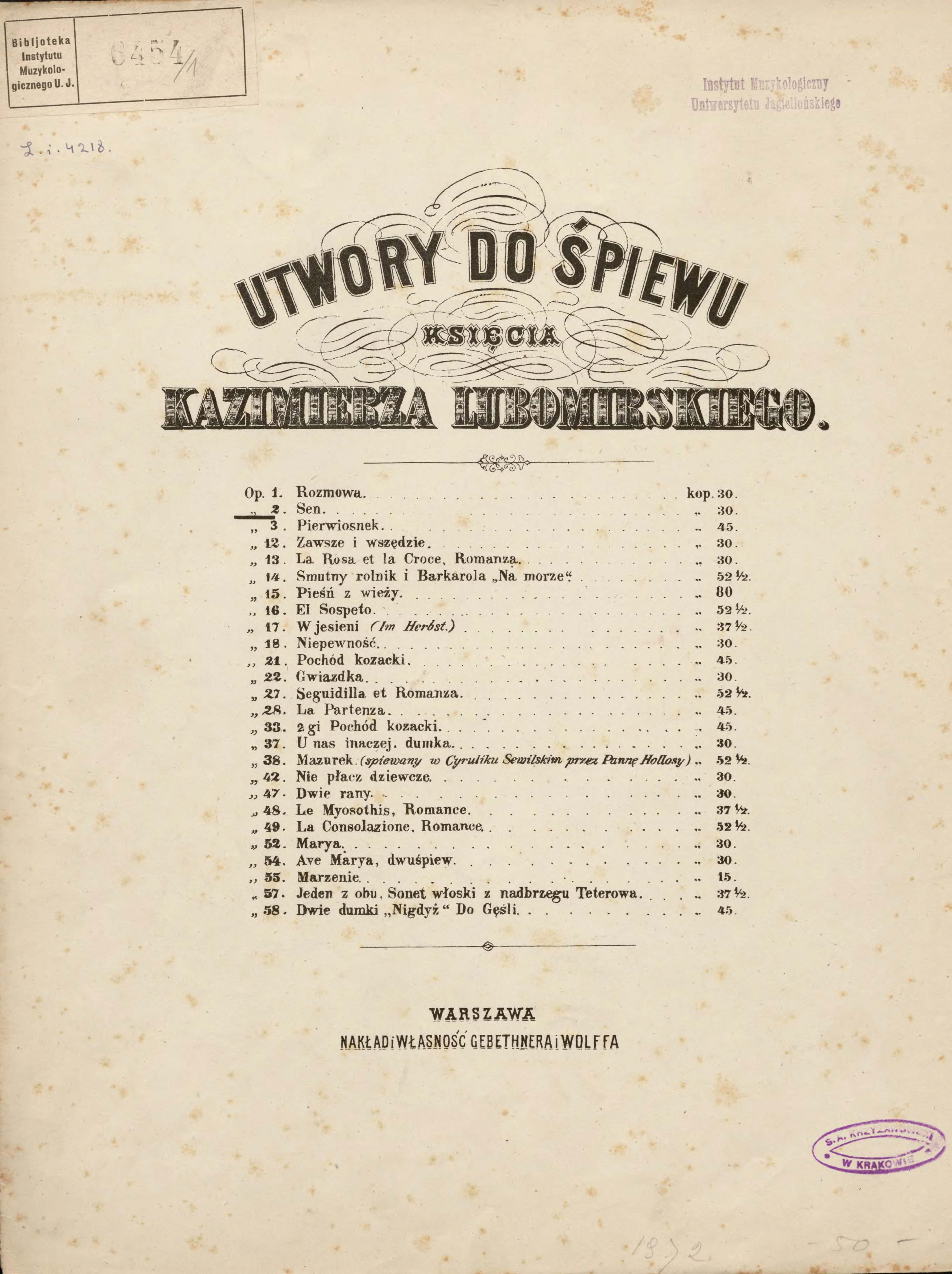 Title page of Kazimierz Lubomirski's Op.2 in Gebethner's (complete) edition of his songs.